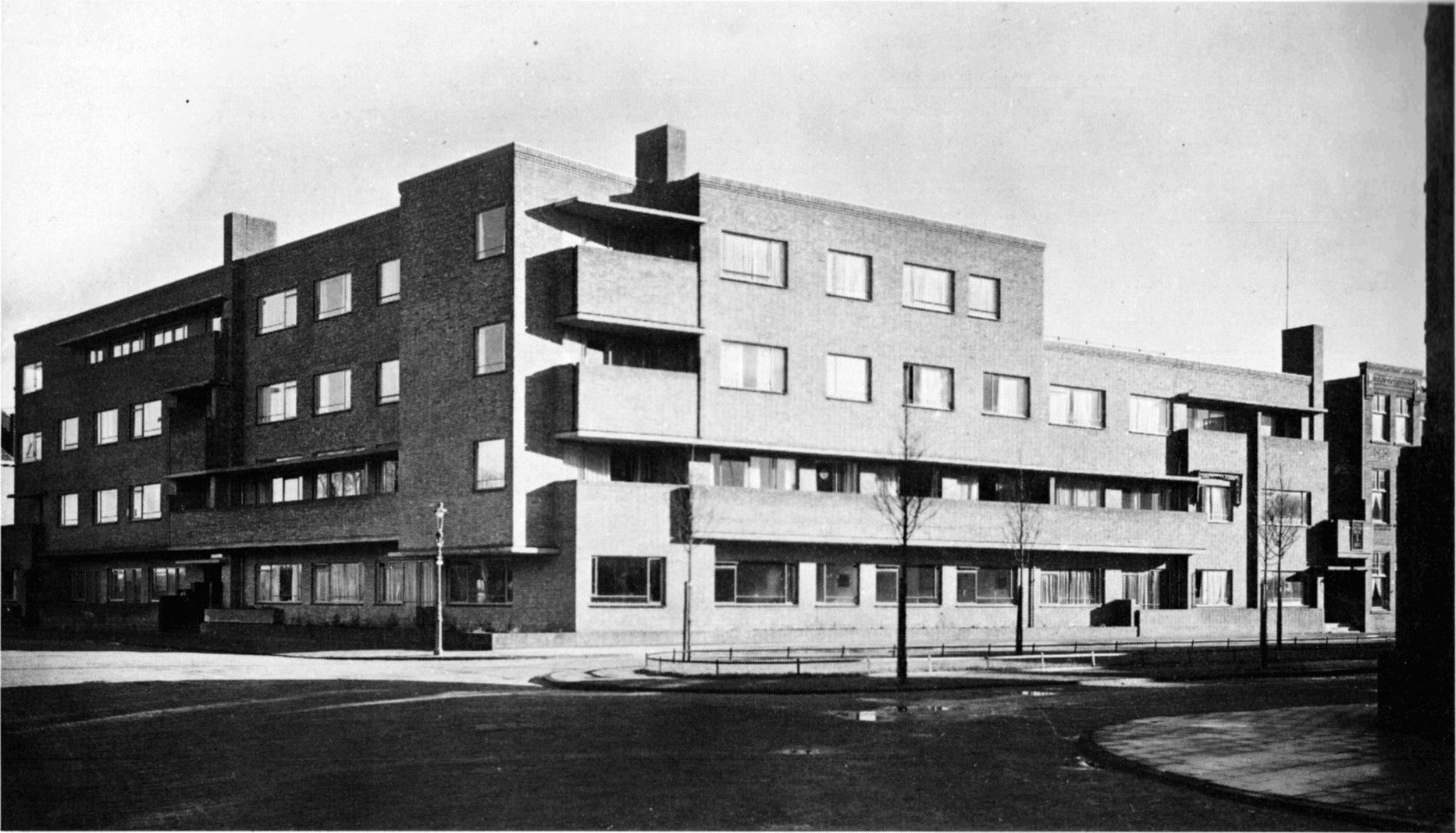 Jan Wils and Frans Lourijsen (architects). Block of flats, Jozef Israëlsplein 9-34, Mauvestraat 56, Jozef Israëlslaan 61, The Hague. 1925-1926. From De Stijl, vol. 7, nr. 79/84 (1927 [in fact 1928]): pp. 51-52.